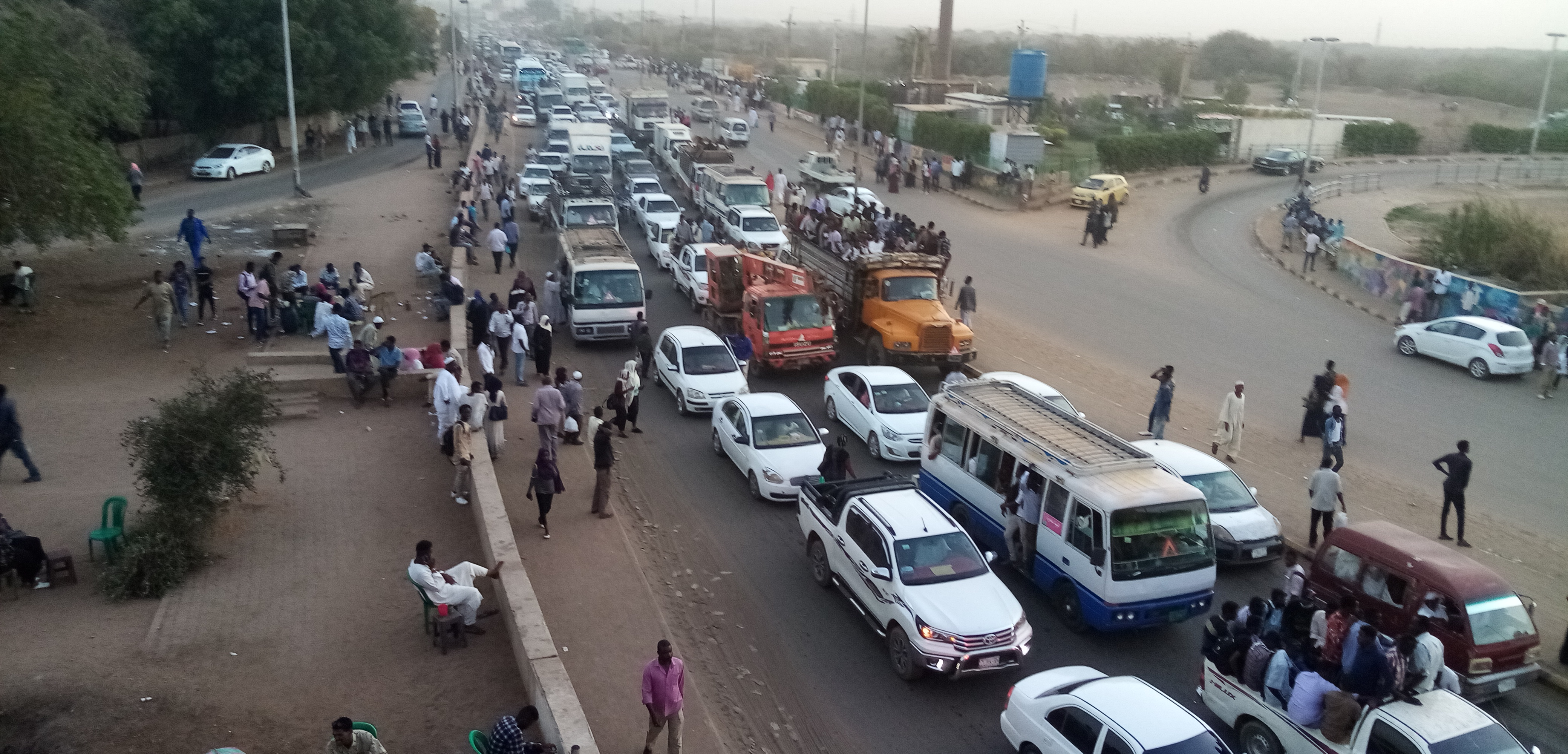 No transport in khartoum thats fact This is an image with the theme "Africa on the Move or Transport" from: Sudan